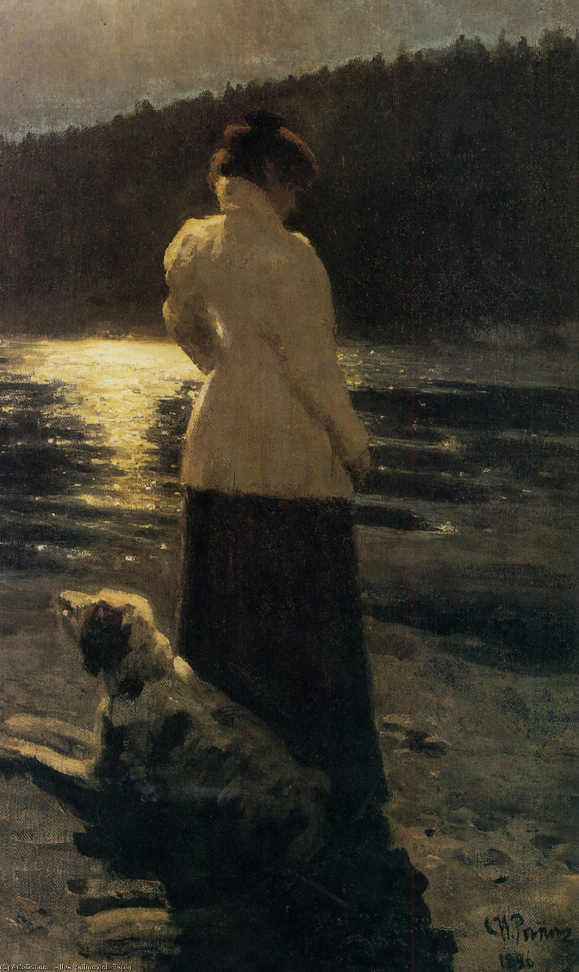 Moonlit night. Zdravnyovo (painting by Ilya Repin, 1896)